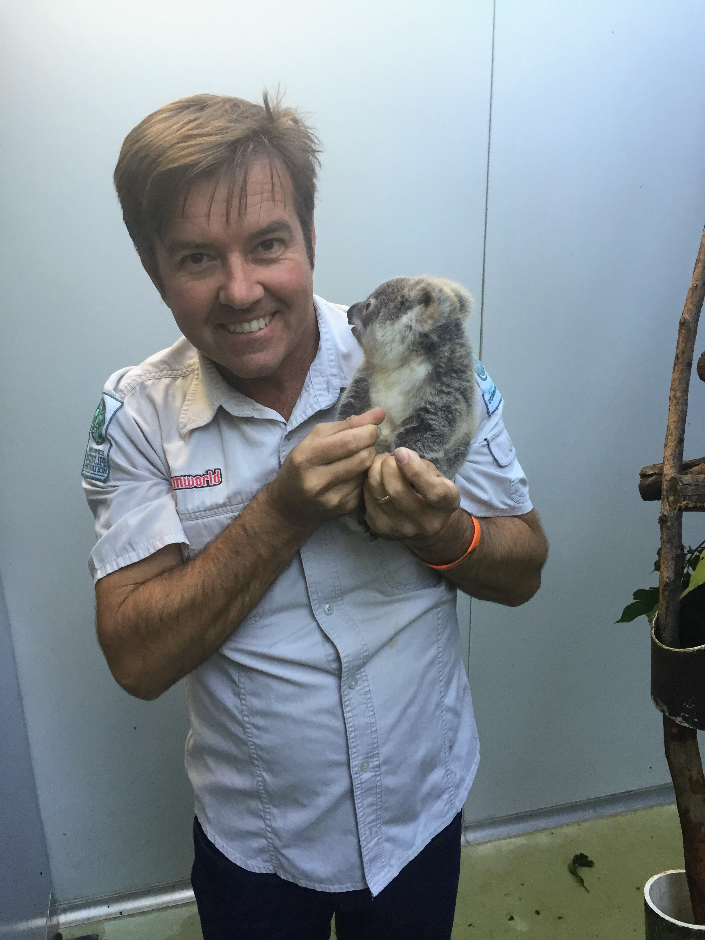 Albano Mucci, Director of Dreamworld Wildlife Foundation, cradling a koala joey in his hands.